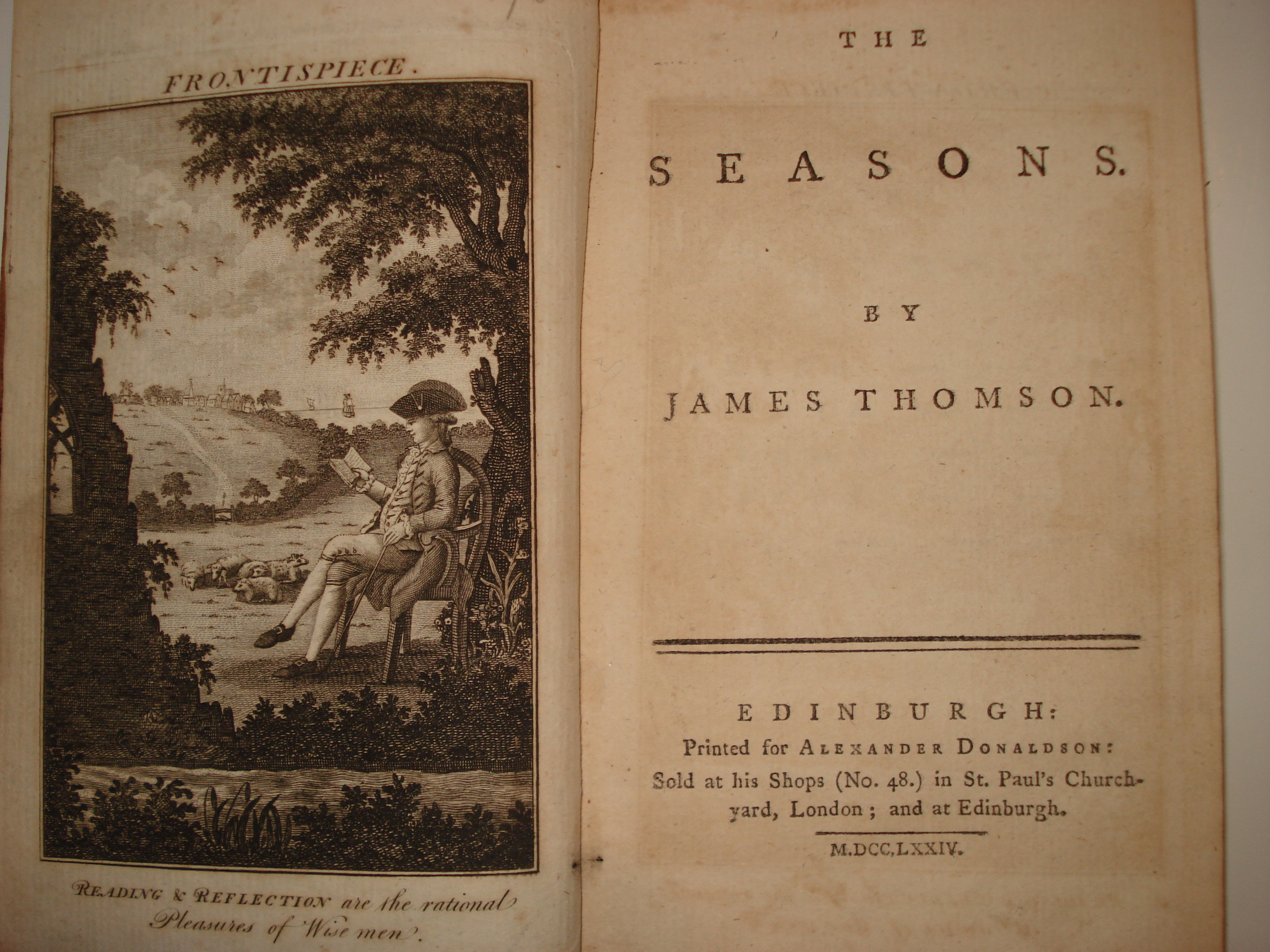 Photograph of Frontispiece – The Seasons by James Thomson Published by Alexander Donaldson. This work is published from the United States.